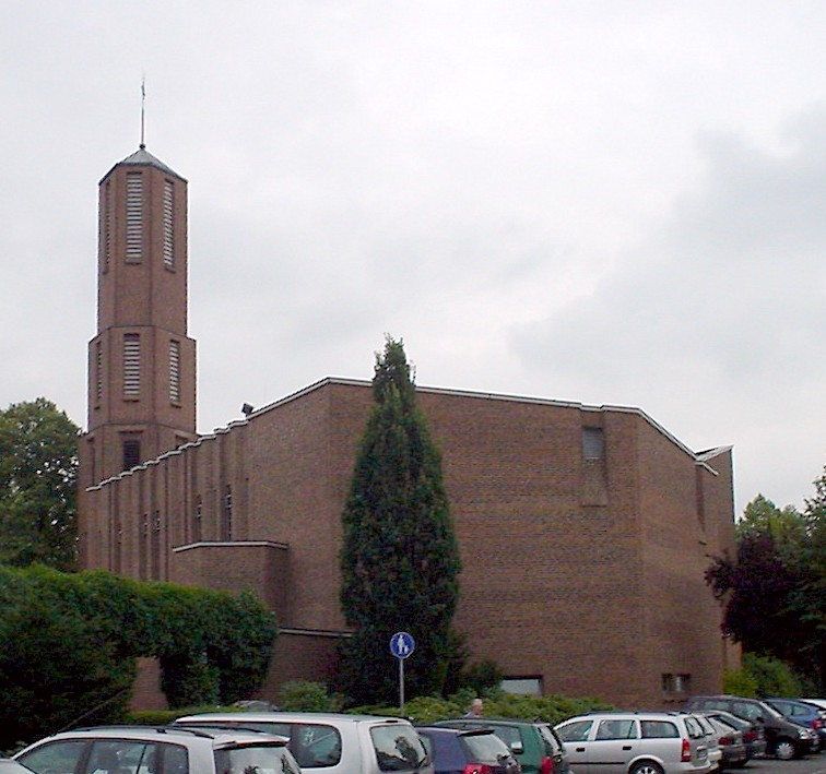 Paderborn: Catholic church Saint Boniface, seen from the street Bonifatiusweg